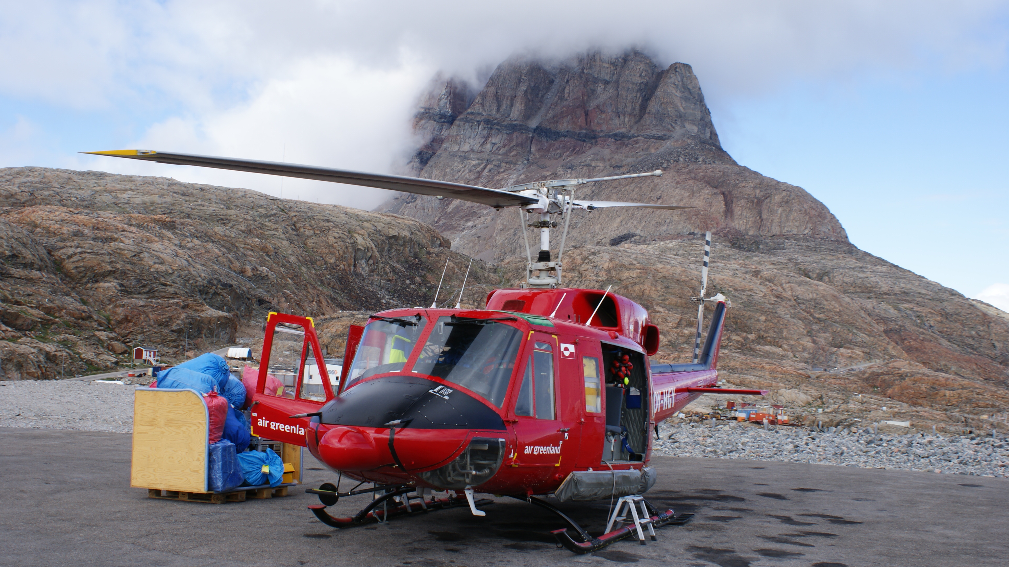 Air Greenland Bell 212 at Uummannaq Heliport, Greenland, after a flight from Qaarsut.